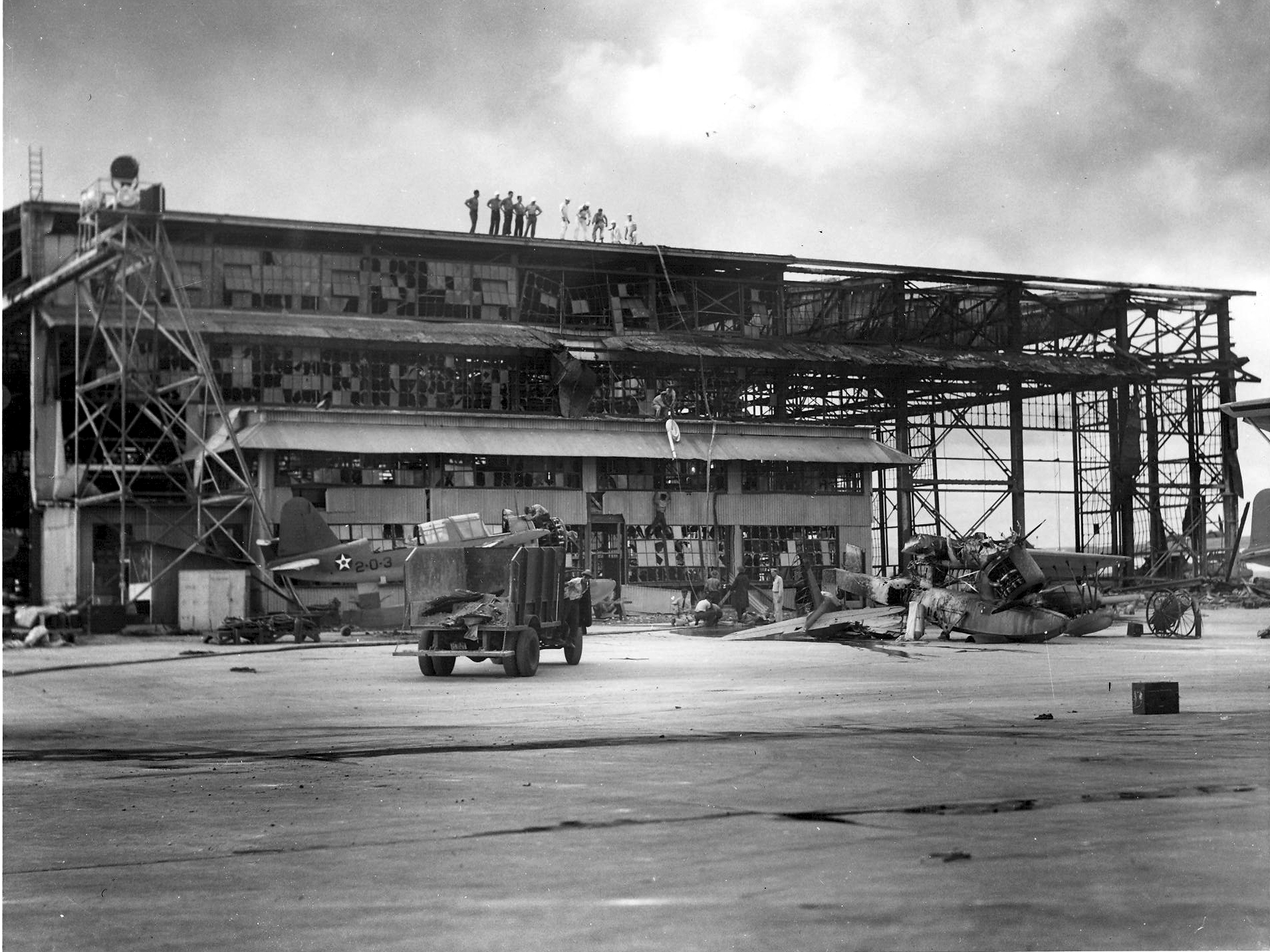 U.S. Navy personnel inspect a damaged hangar at Naval Air Station Ford Island in the aftermath of the Japanese attack on Pearl Harbor, Hawaii (USA), December 1941. A destroyed Vought OS2U Kingfisher is visible on the right, another OS2U of Observation Squadron VO-2 is worked on.